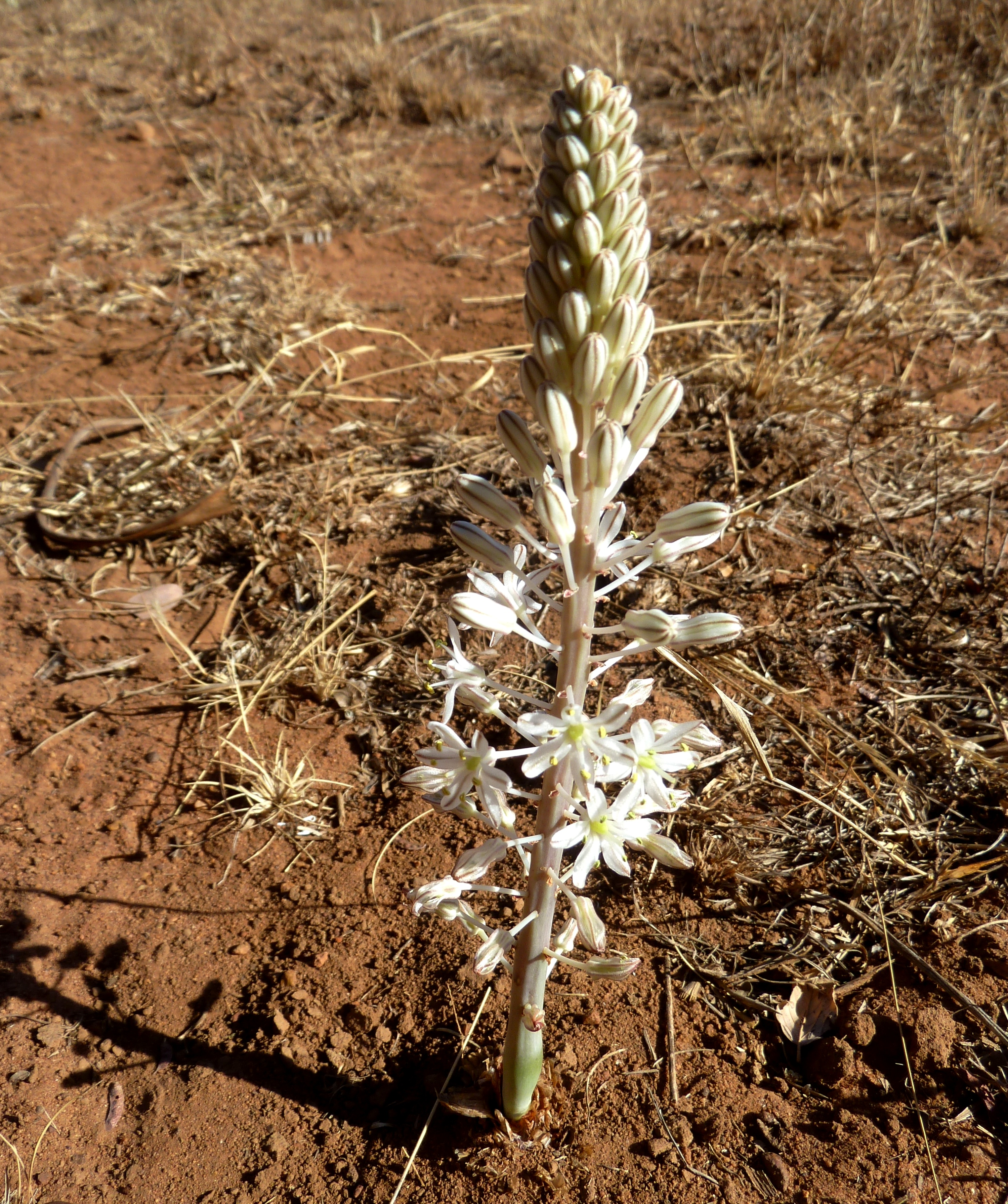 Inflorescence of a Transvaal slangkop during late winter in Roodeplaat Nature Reserve near Pretoria